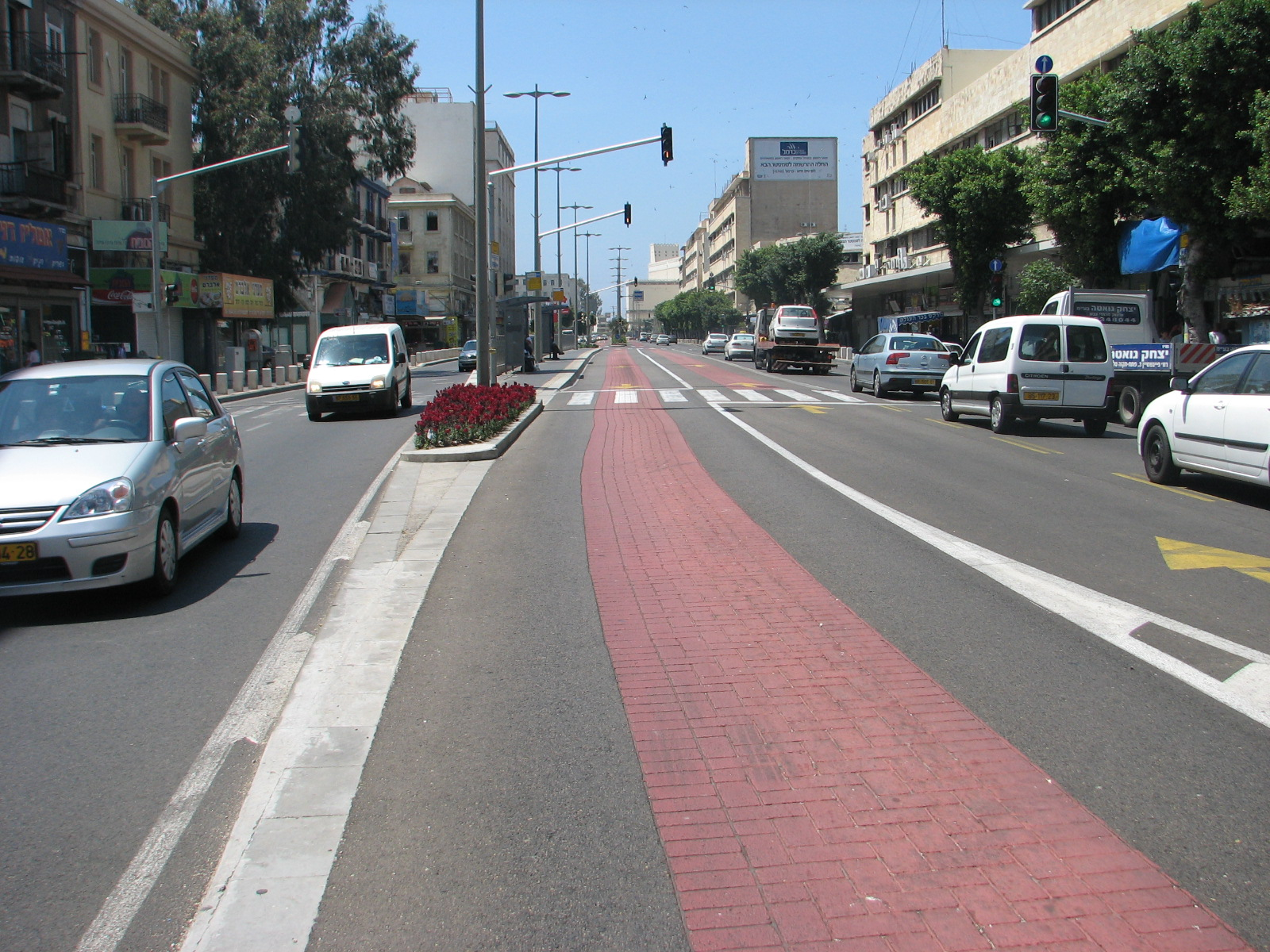 Ha'Atzma'ut Street at the corner of Eliyahu HaNavi Street in the Haifa CBD, looking west.